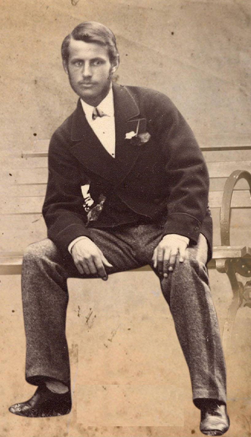 James Henry Apperley Tremenheere in young age